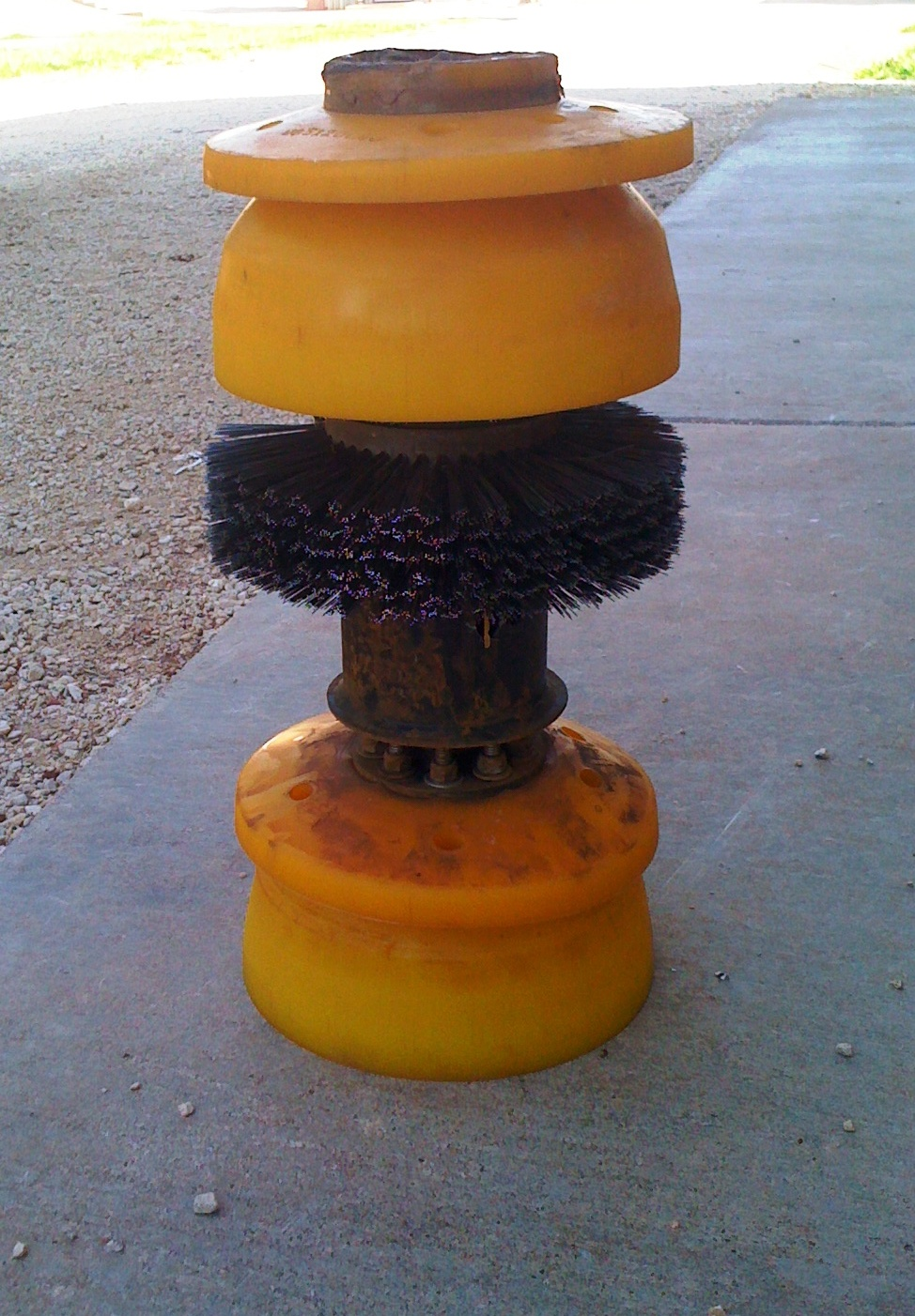 A pig (pipeline inspection gauge) used in a 6" refined petroleum pipeline in West Texas.